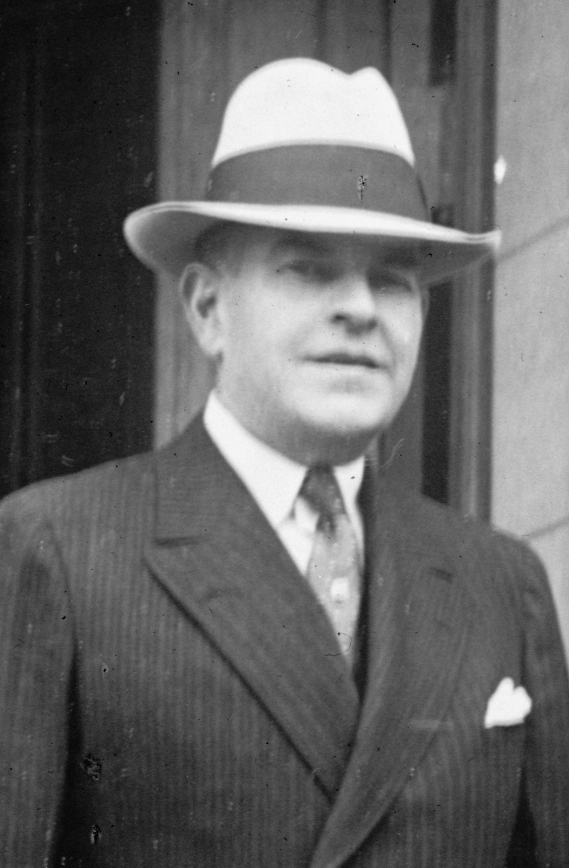 Dr. John Oliver La Gorce [1880-1949], vice president of the National Geographic Society